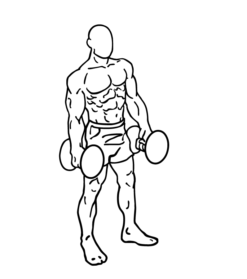 an exercise of hip